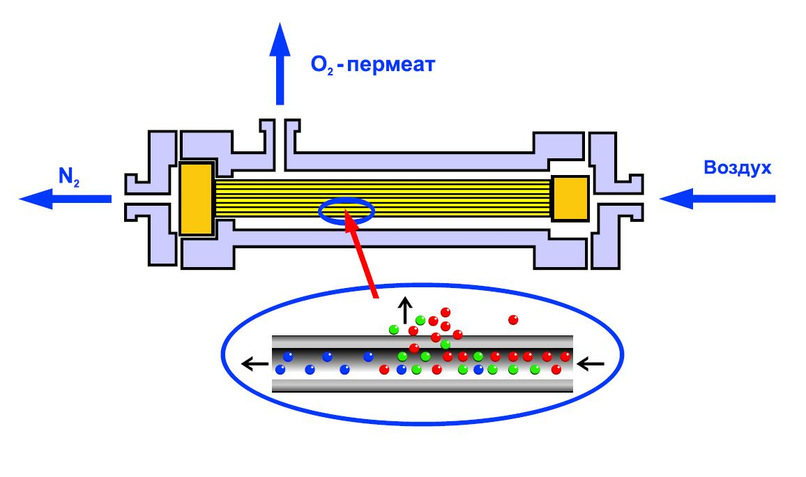 gas separation scheme